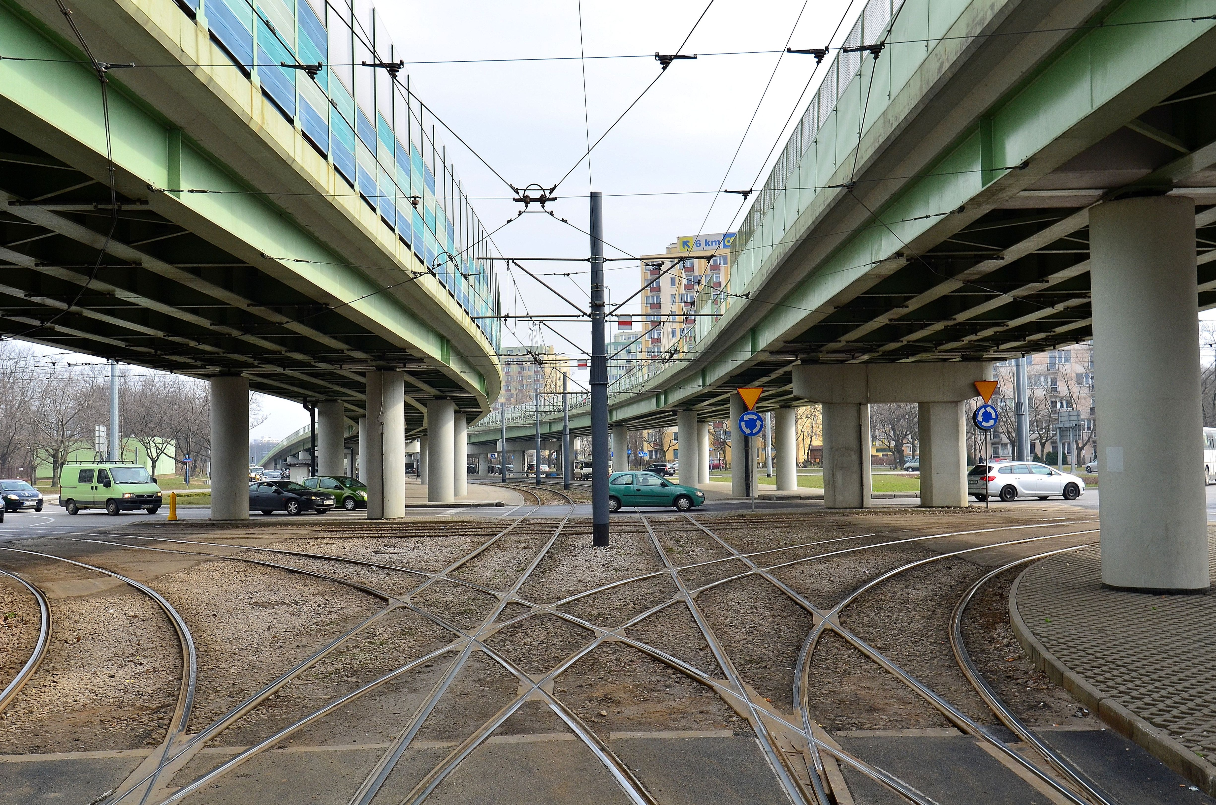 Stefan Starzyński Roundabout in Warsaw